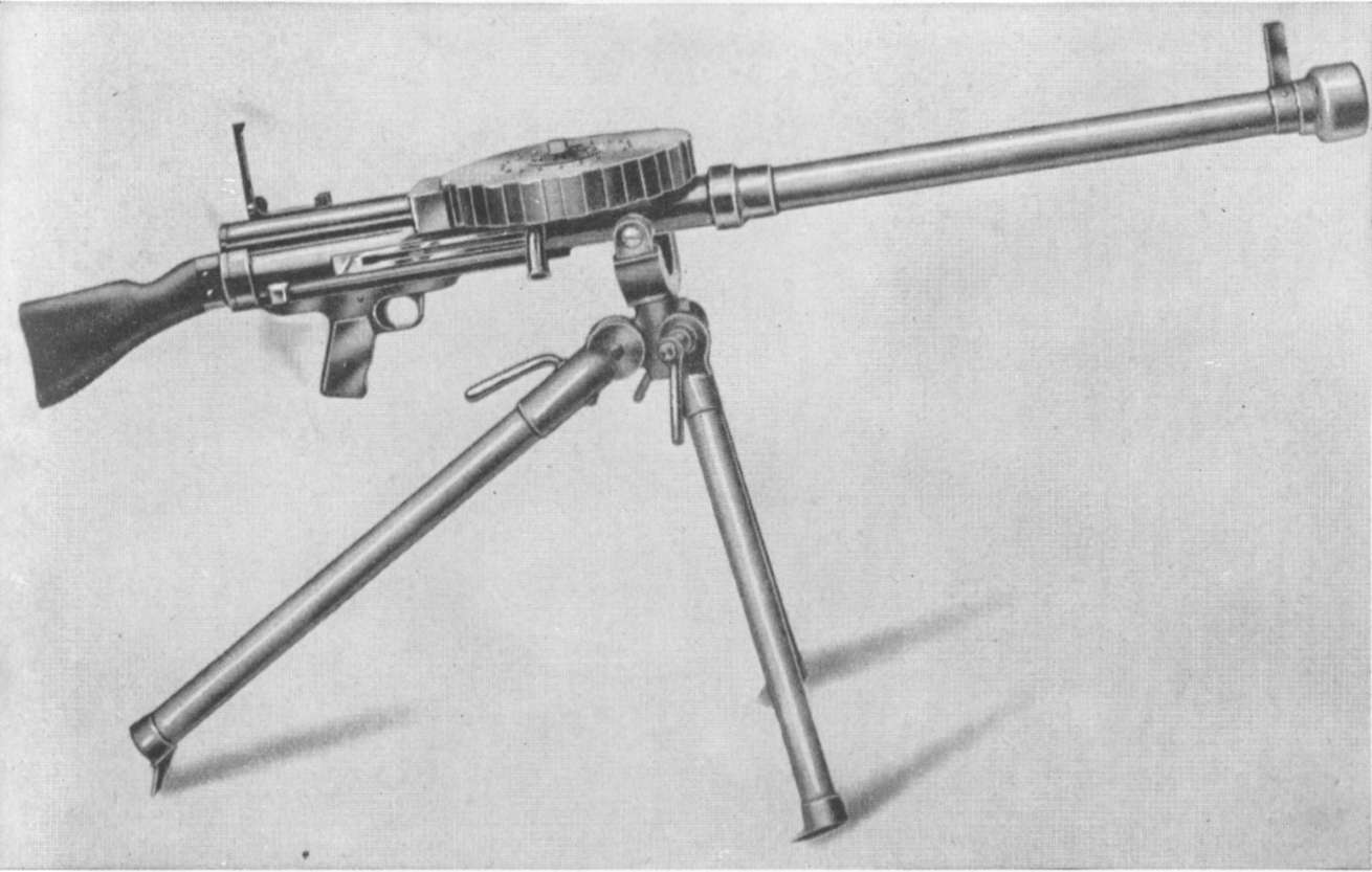 B.S.A .5 inch machine gun